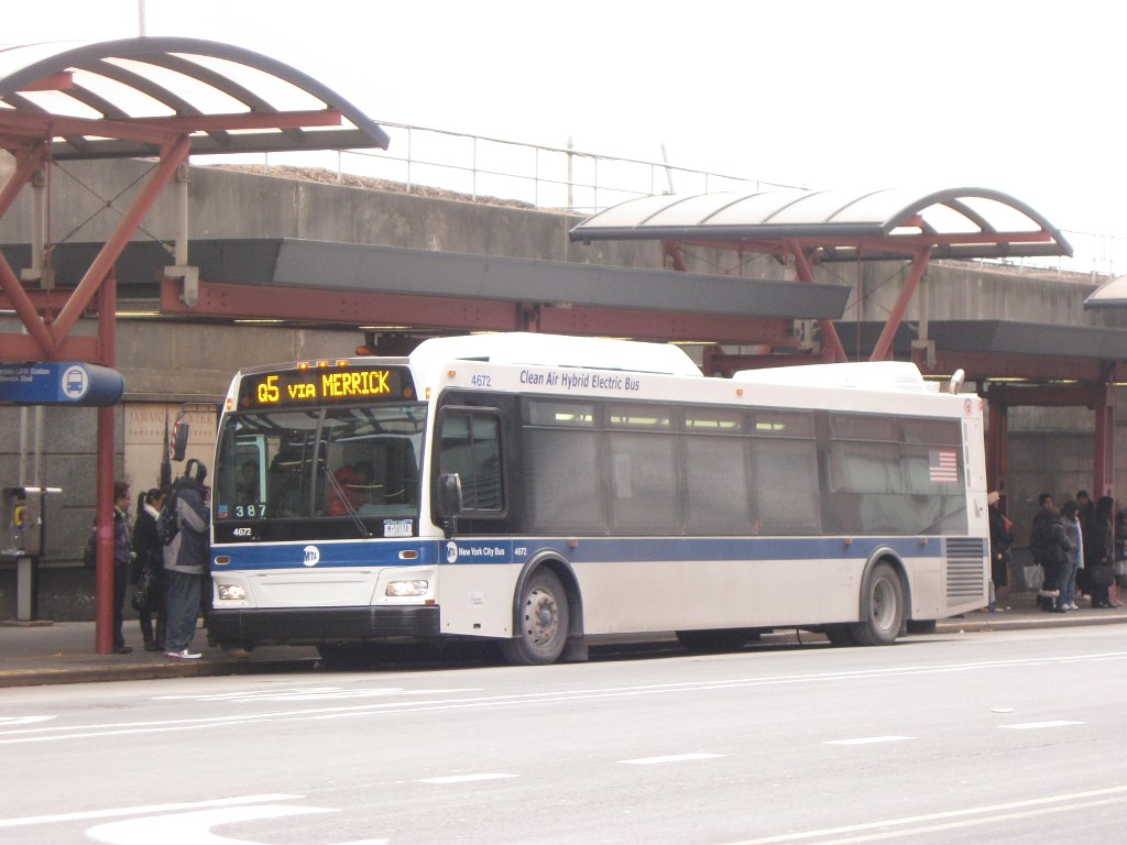 MTA New York City Bus #4672, an Orion VII Next Generation, boards customers at Jamaica Center-Parsons/Archer on the Q5.